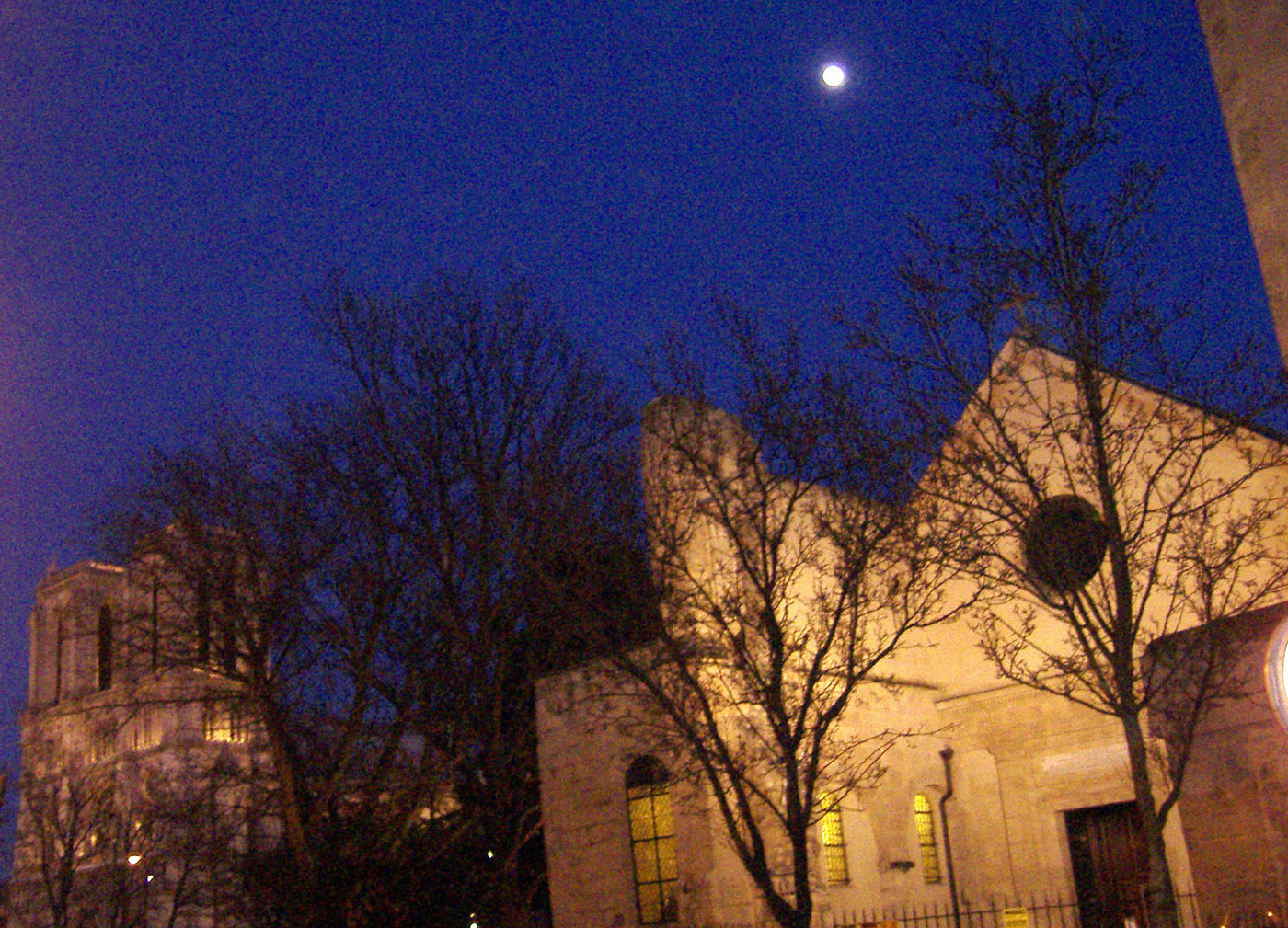 Melkite Church of St Julien le Pauvre in Paris